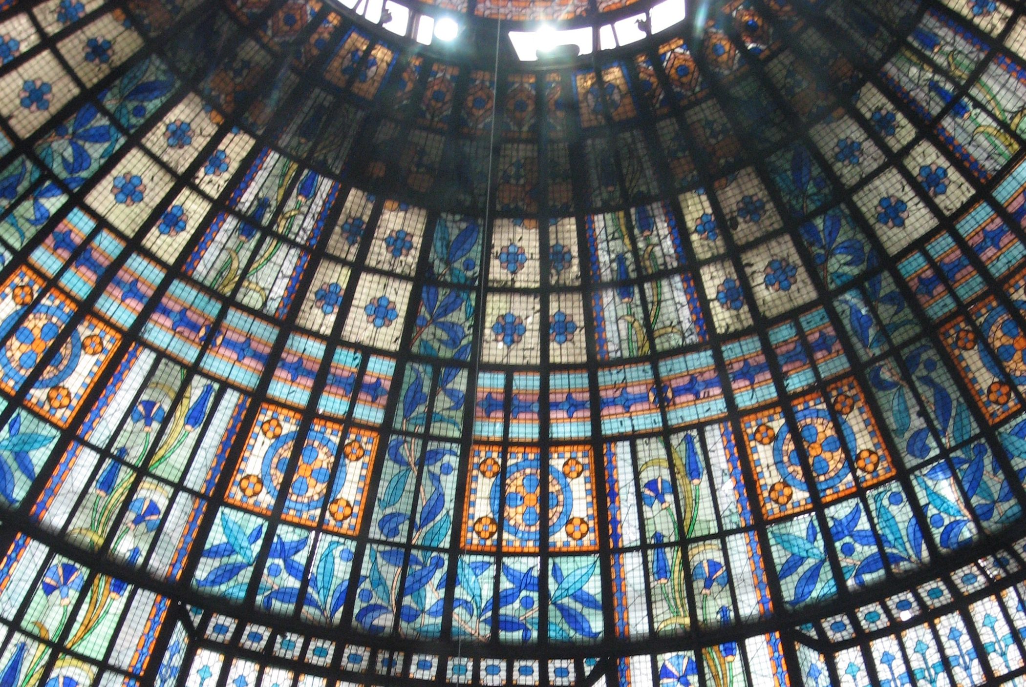 Part of the cupola above the tea-room at the Printemps department store in Boulevard Haussmann, Paris